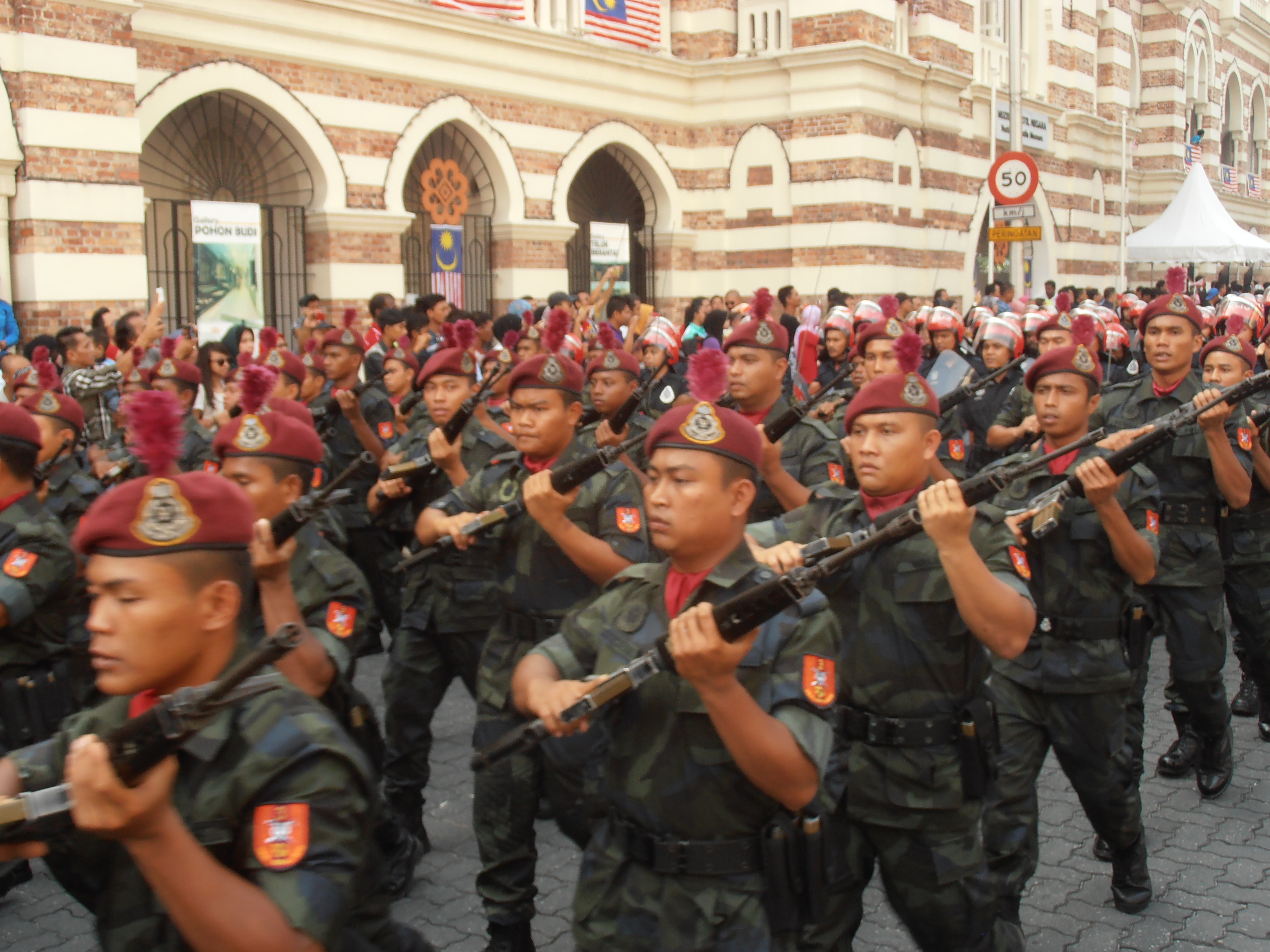 An elite light infantry unit, Senoi Praaq of General Operations Force on parade in Merdeka Square, Kuala Lumpur dedicated to the 56th National Day Parade of Malaysia. The unit has a large role as a tracker and has a lot of dutiful during the operations against the communist insurgencies and the confrontation.